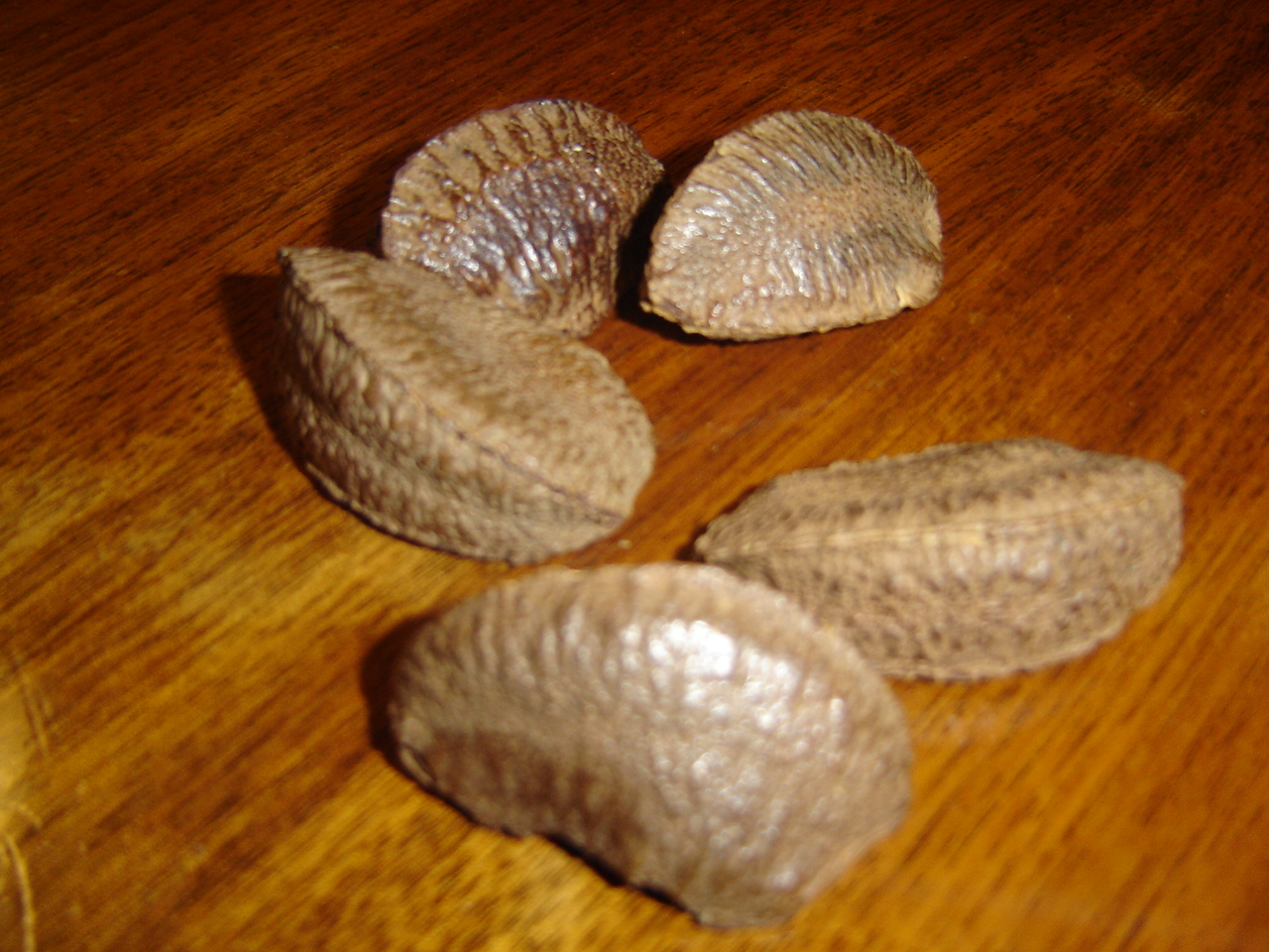 Brazil Nuts. Taken by Deathworm 21:44, 7 May 2007 (UTC)